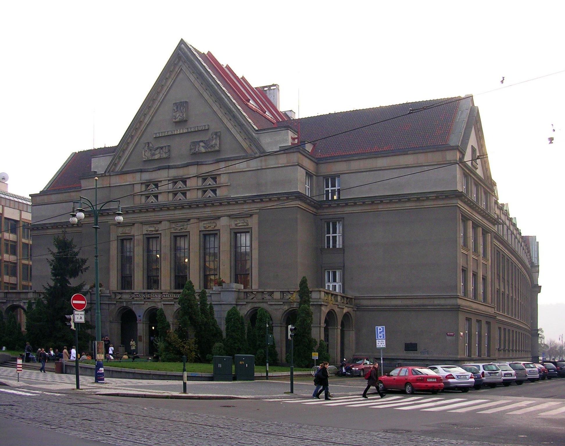 Old Town|, Prague. Faculty of Law.